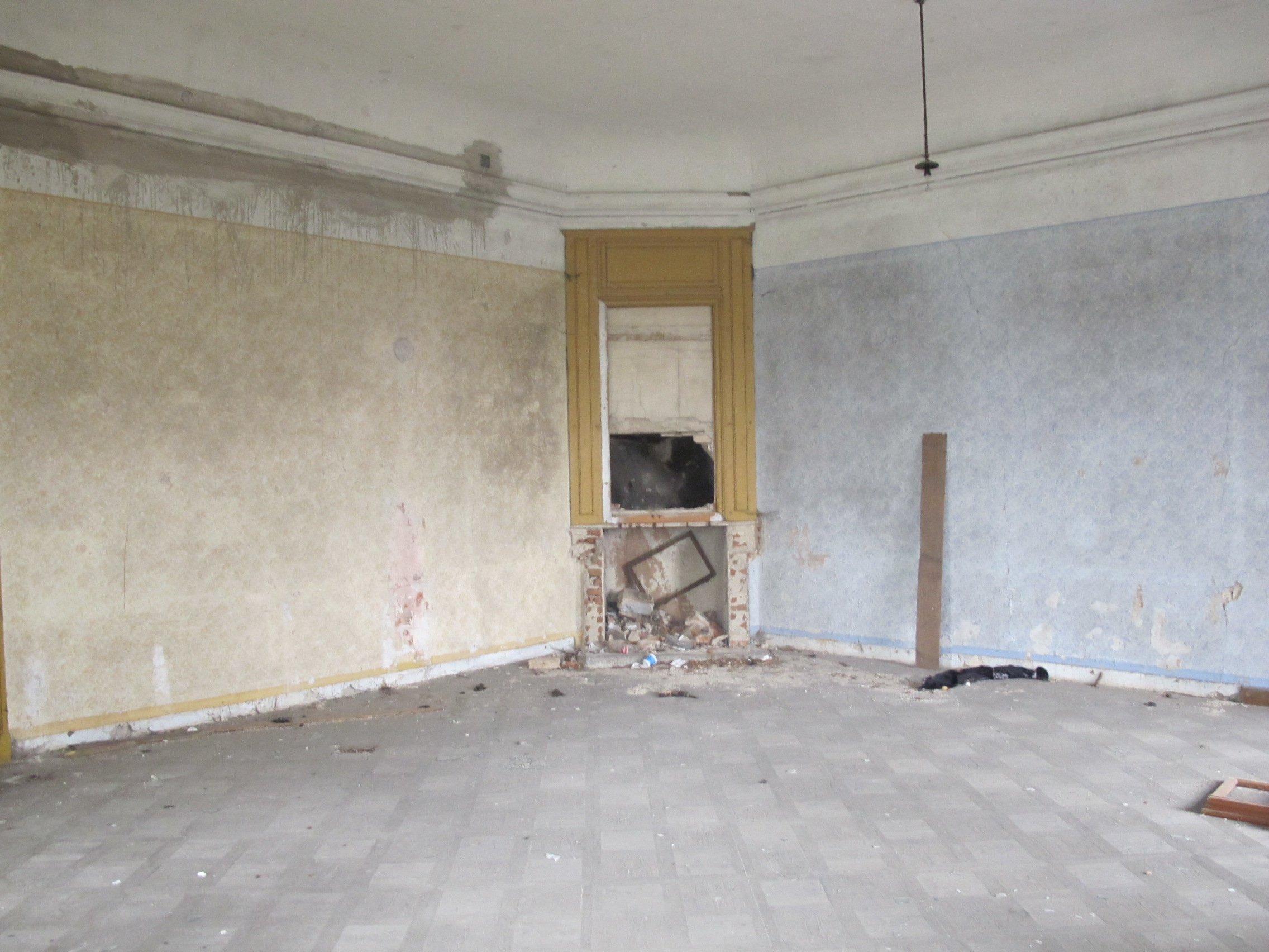 Inside of the Postoloprty castle